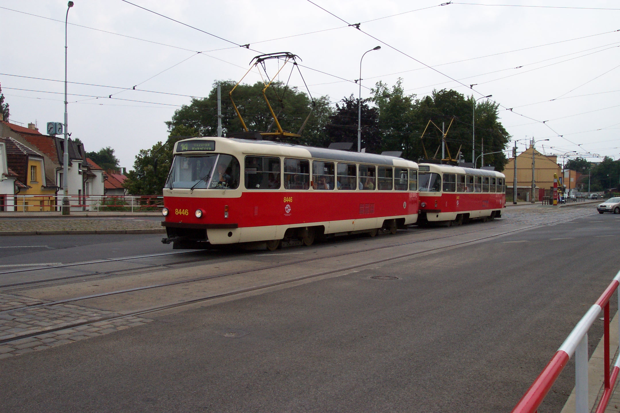 Tram type T3P at Kobylisy, Prague